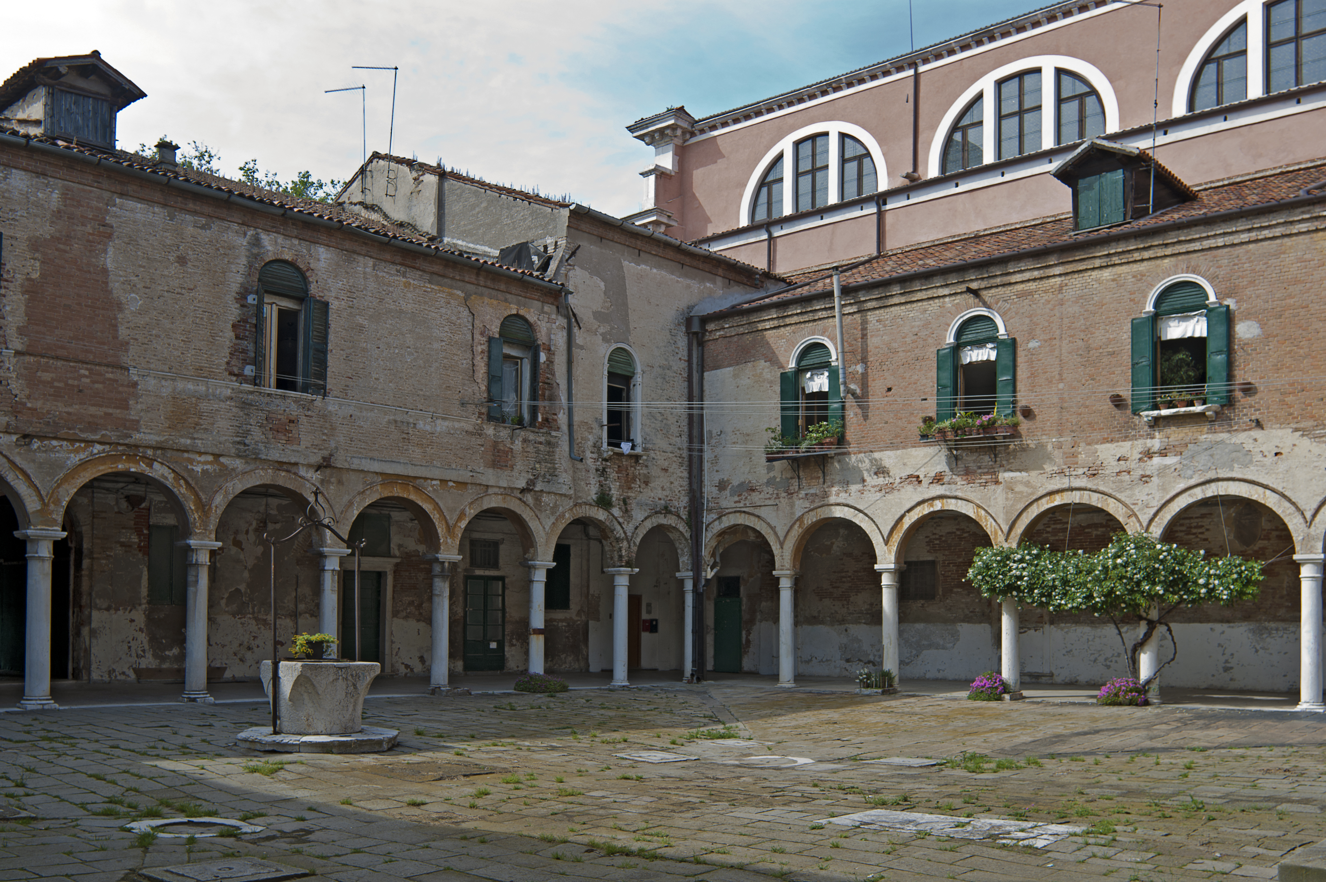 Former Palazzo Patriarcale from San Pietro di Castello, Venice; the cloister, which was used as a arsenal under Eugène de Beauharnais.